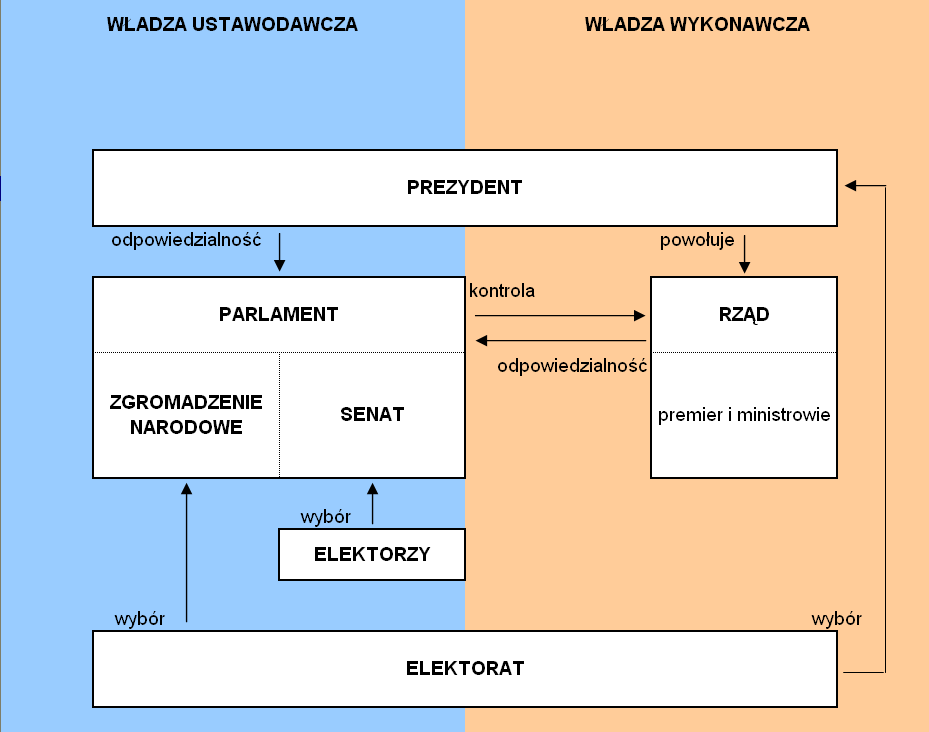 Scheme ilustrating the political system of France